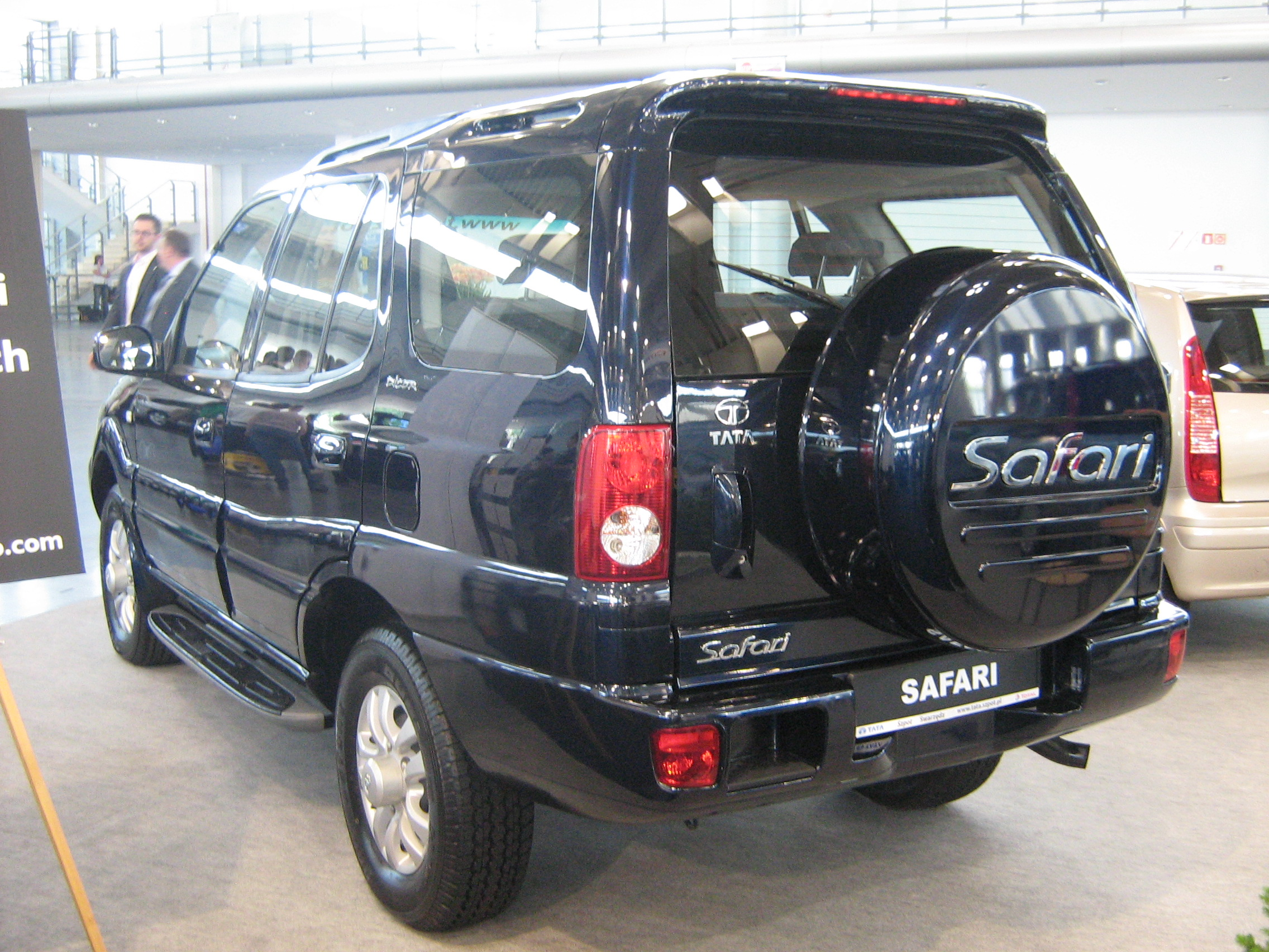 Tata Safari - PSM 2009 in Poznan.